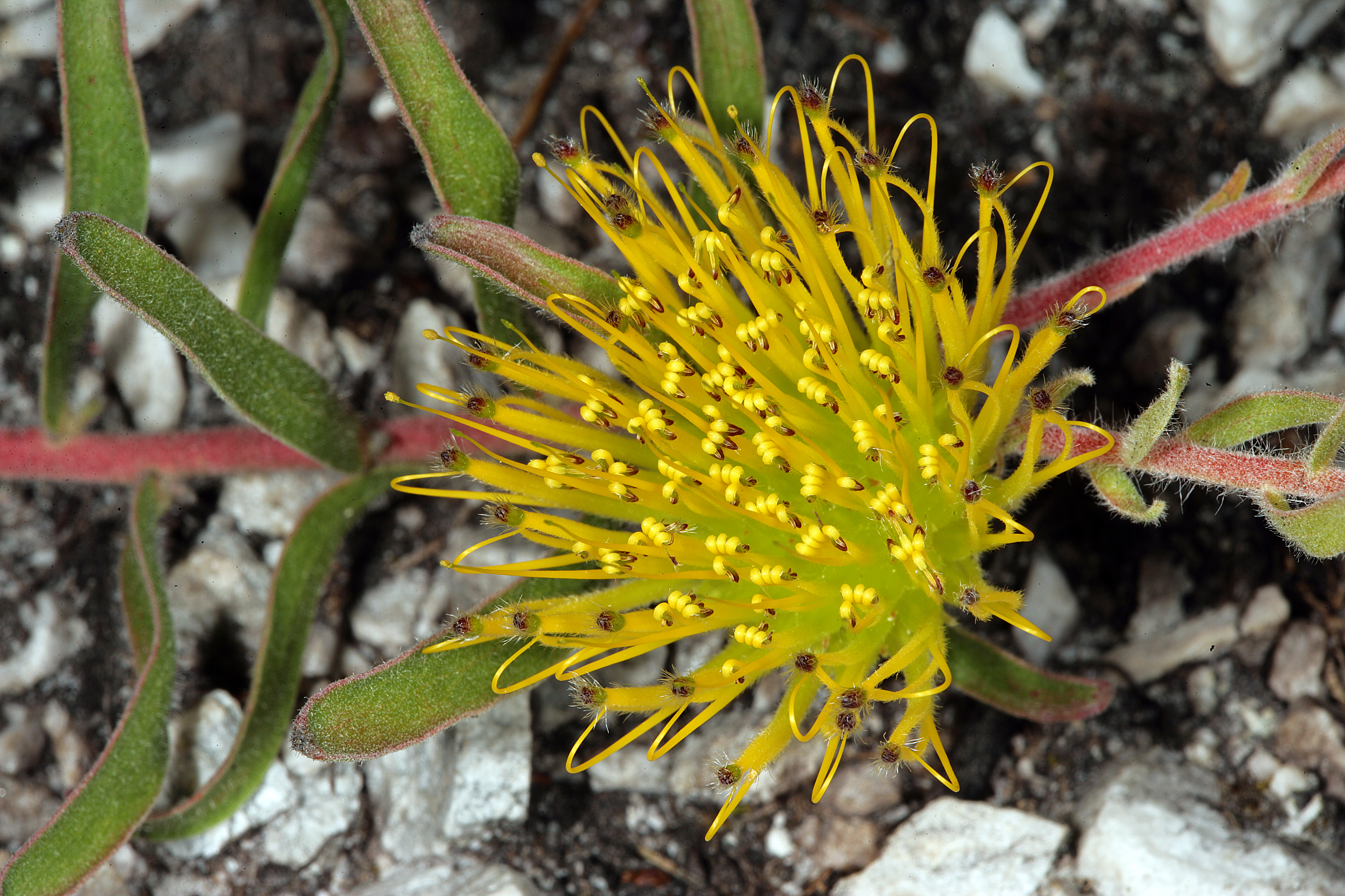 Leucospermum gracile, flowerhead; Fernkloof Nature Reserve, Hermanus, Western Cape, South Africa